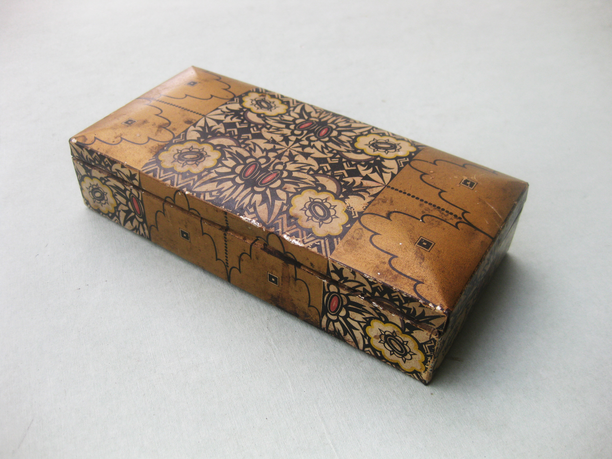 Biscuit box designed by Emanuel Josef Margold for Bahlsen, 1917